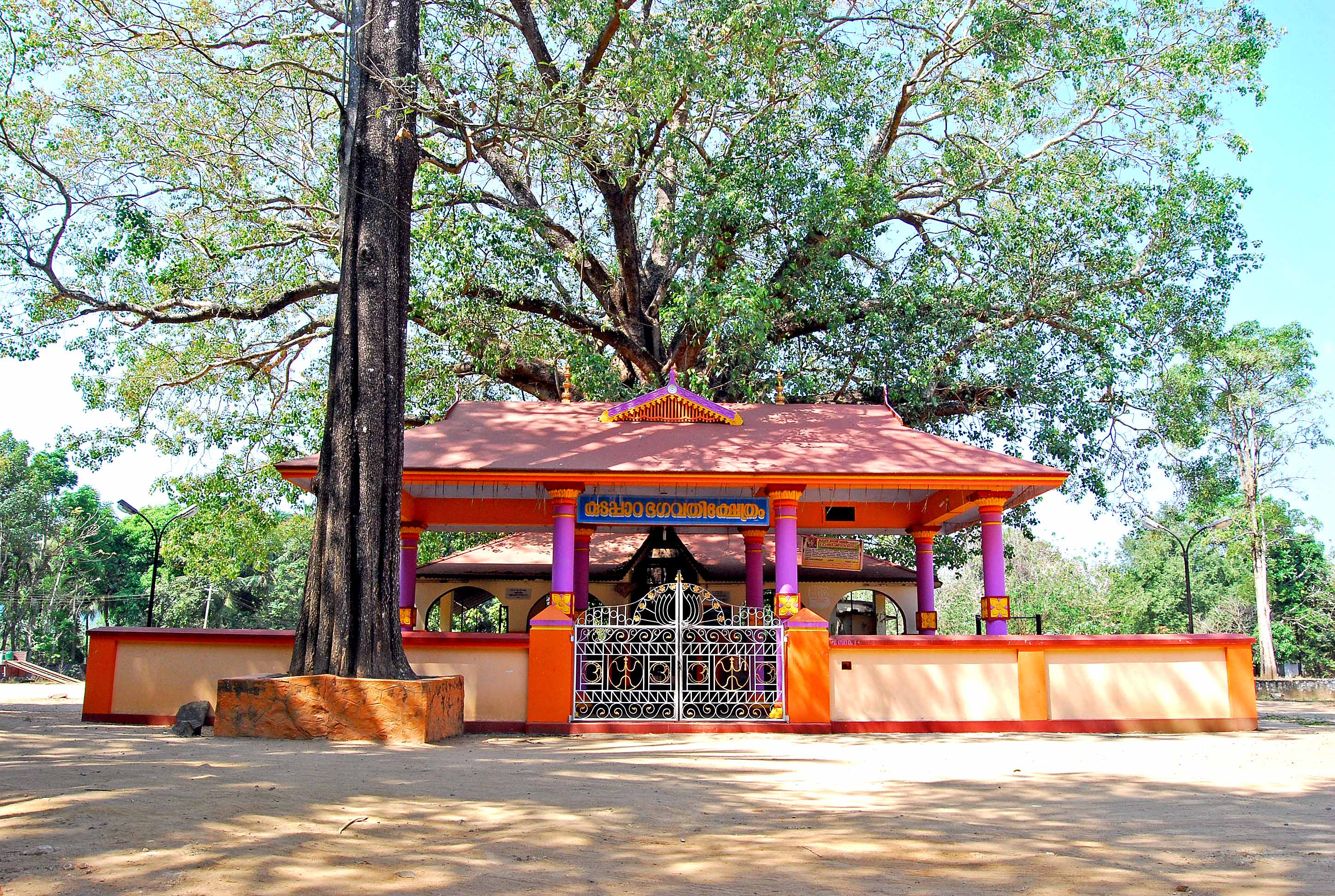 Kutappara Devi Temple, located at Kutappaara near Desamangalam in Trichur district.